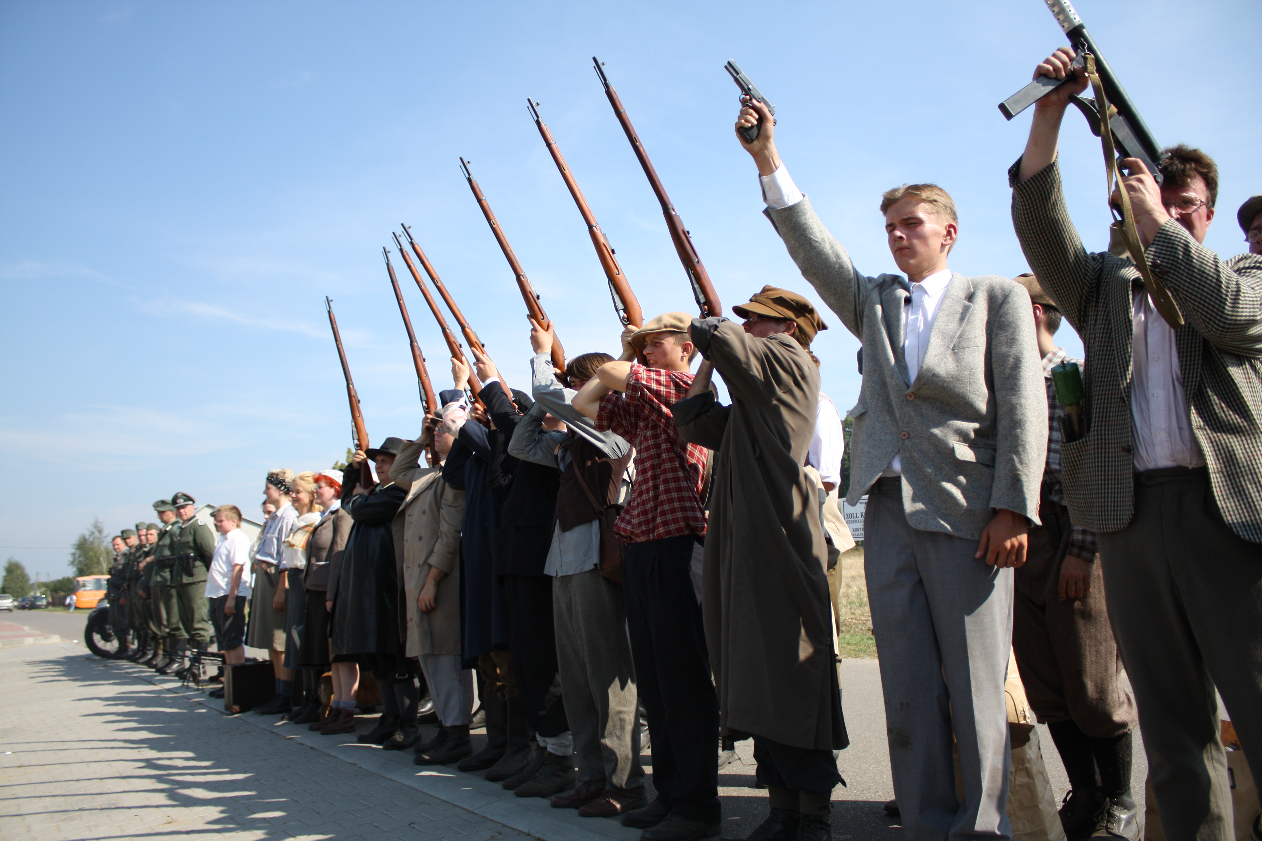 Reenactments of "Taśma" action. During attack on a Grenzschutzpolizei building in Sieczychy near Wyszków died (in the night of 20 and 21 August 1943) Tadeusz Zawadzki codename: Zośka